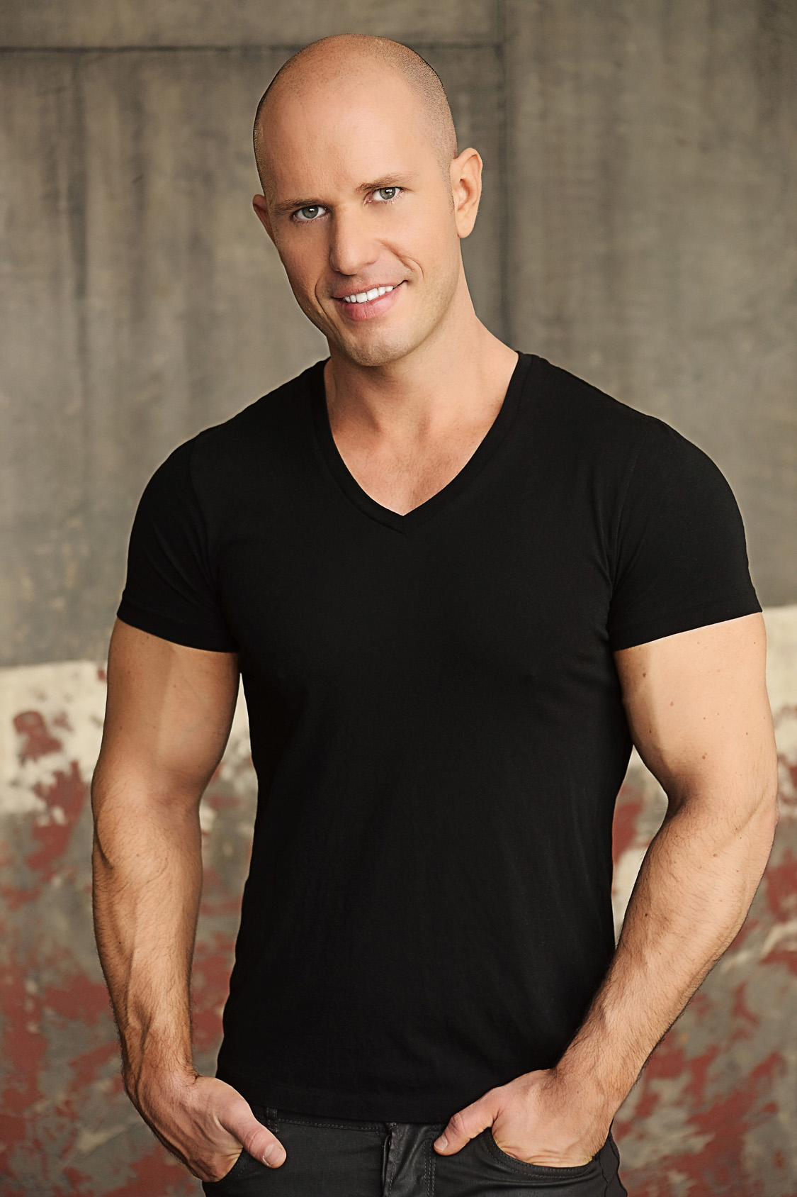 American baritone, Zachary Gordin. Photo by Bradford Rogne